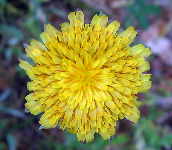 Agoseris grandiflora — California dandelion. Taken at Malibu Creek State Park — in the Santa Monica Mountains National Recreation Area, southern California. NPS photo, no copyright.